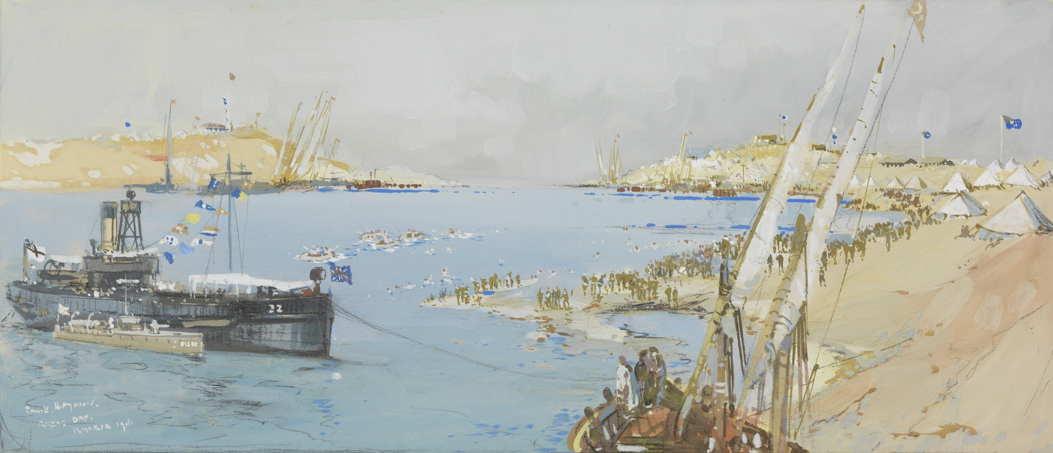 Ferry Post, Ballah, Suez Canal, 1916 - Anzac Day celebrations. Carley Float Race, Hm Hopper "32", Official Judge Ship image: a float race taking place in the Suez Canal. In the right foreground is the bow of a sailing boat with people on the deck watching the race. To the left a Royal Navy hopper vessel and another smaller gunboat are moored in the water, with the race going on in the water beyond. A crowd of soldiers watches the race from the shoreline with the bell tents of a military encampment visible on the right.